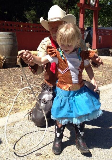 Lasso expert Dave Thornbury teaches Berlin, daughter of Western children's author Lorin Morgan-Richards, a new trick.